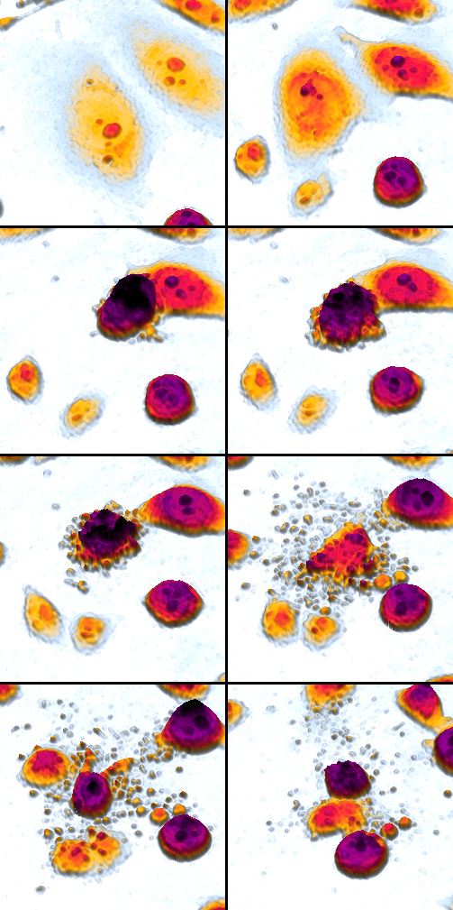 The sub images where extracted from a time-lapse microscopy video showing apoptosis of DU145 prostate cancer cells. To induce apoptosis the cells were treated with etoposide. The 61 hour time-lapse was created using the HoloMonitor M3 from Phase Holographic Imaging AB.